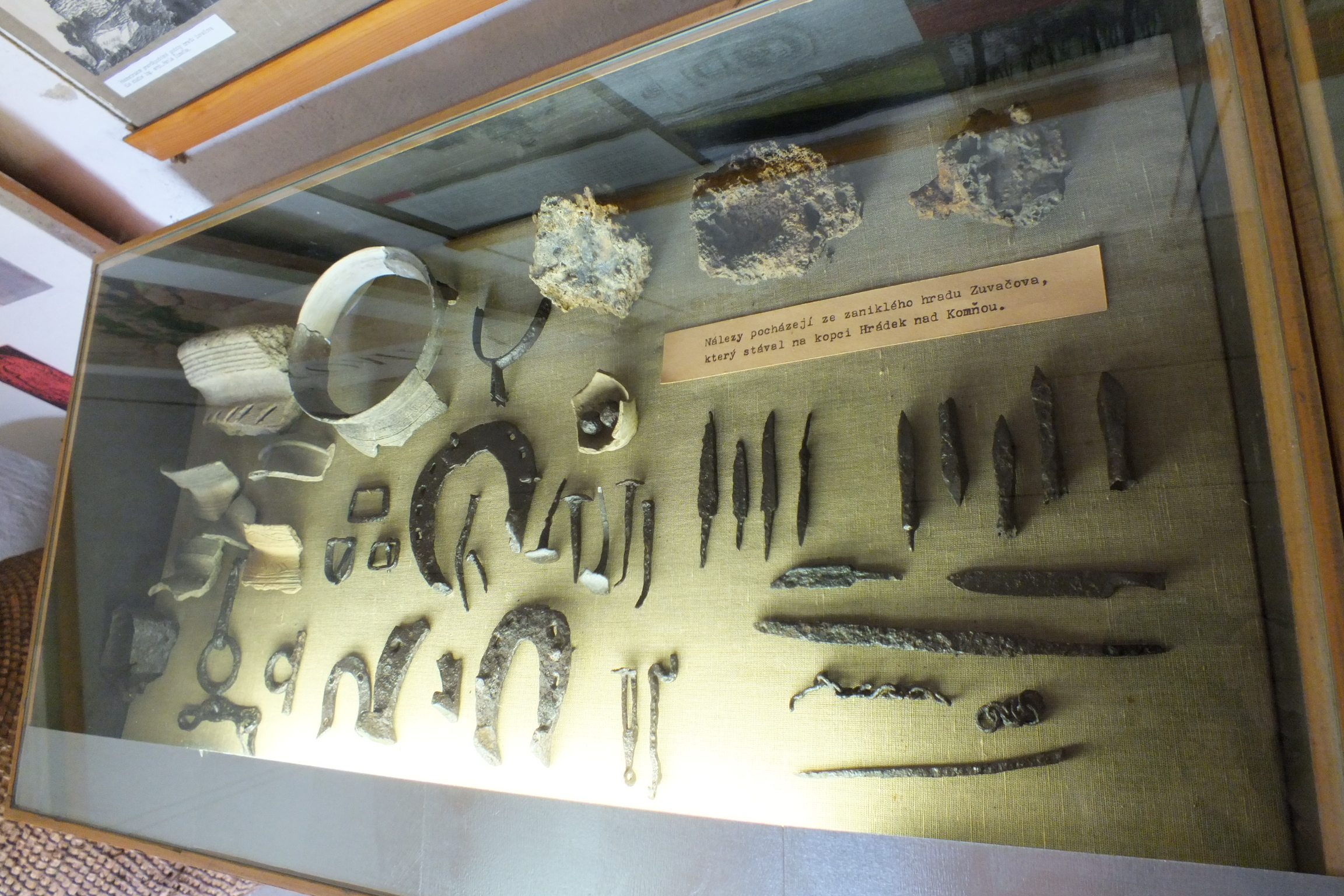 Small finds excavated at the site of the ruins of the Zuvačov castle, exposed at the Memorial of J. A. Comenius in Komňa, the Czech Republic.